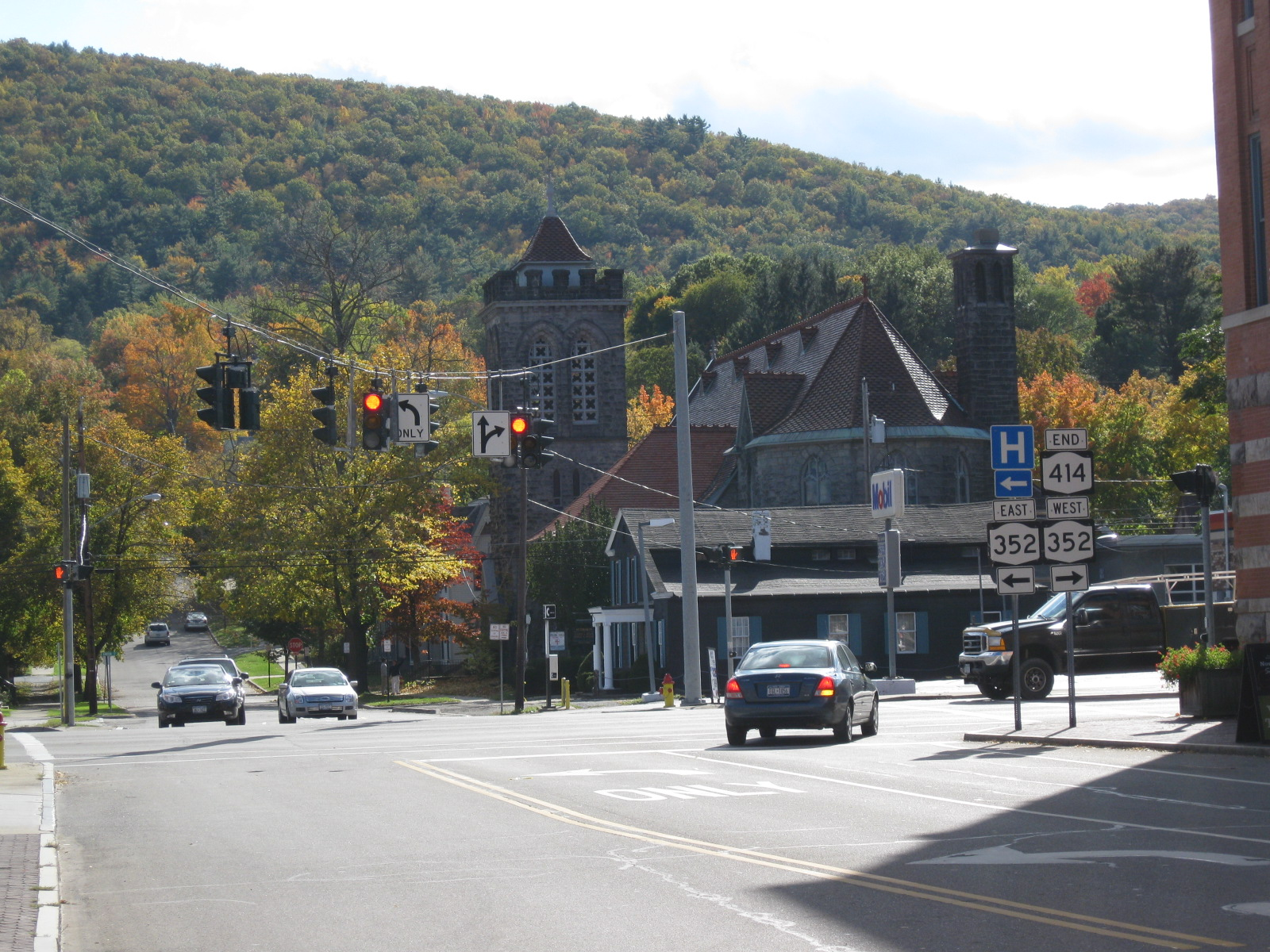 The southern terminus of New York State Route 414 in the city of Corning, New York. The route ends here at New York State Route 352 (Denison Parkway).